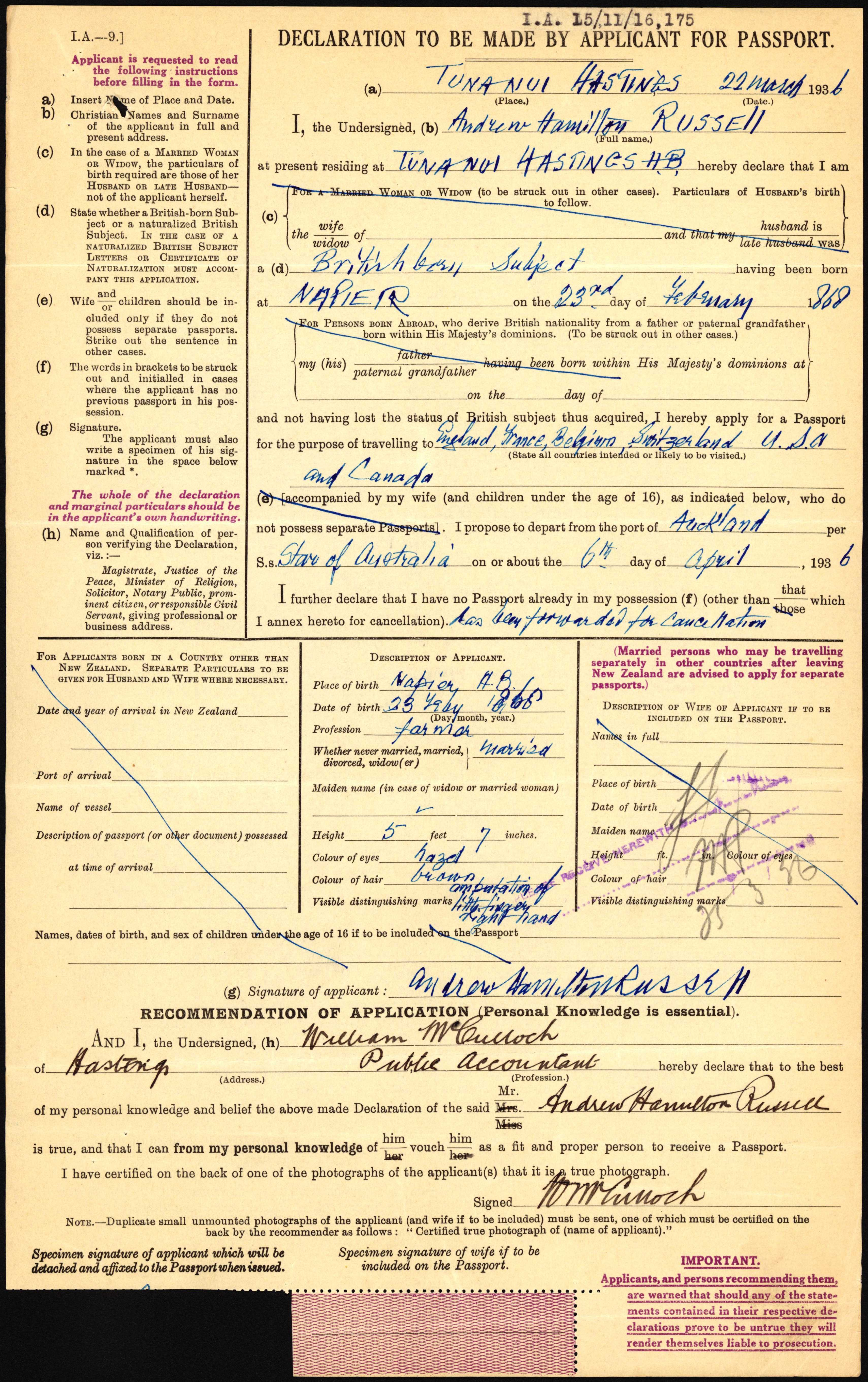 Archives New Zealand Reference: ACGO 8333 IA1 1349 / 15/11/16175